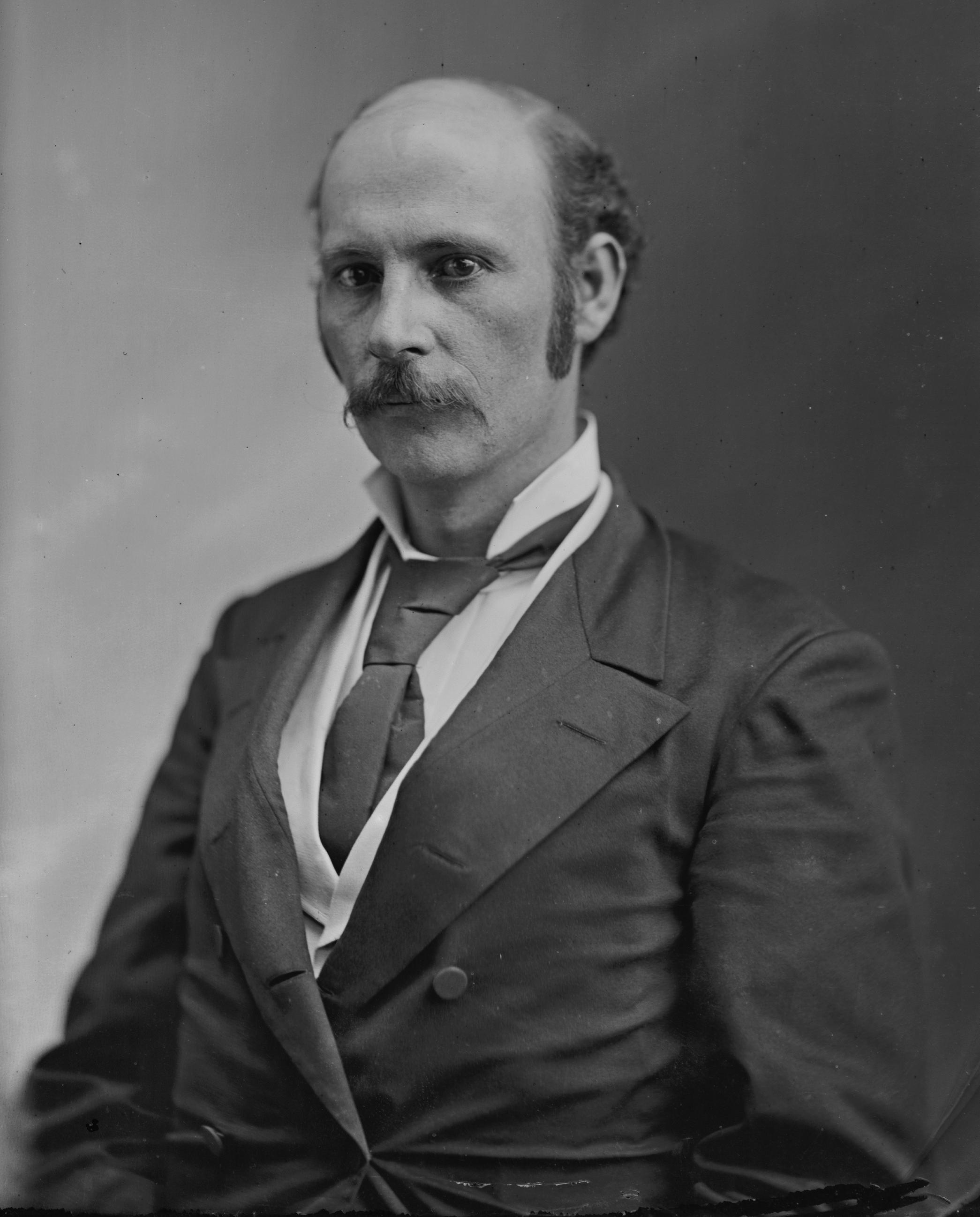 Robert Love Taylor. Library of Congress description: "Taylor, Hon. Robert Love of Tenn. Senator 46th Cong".